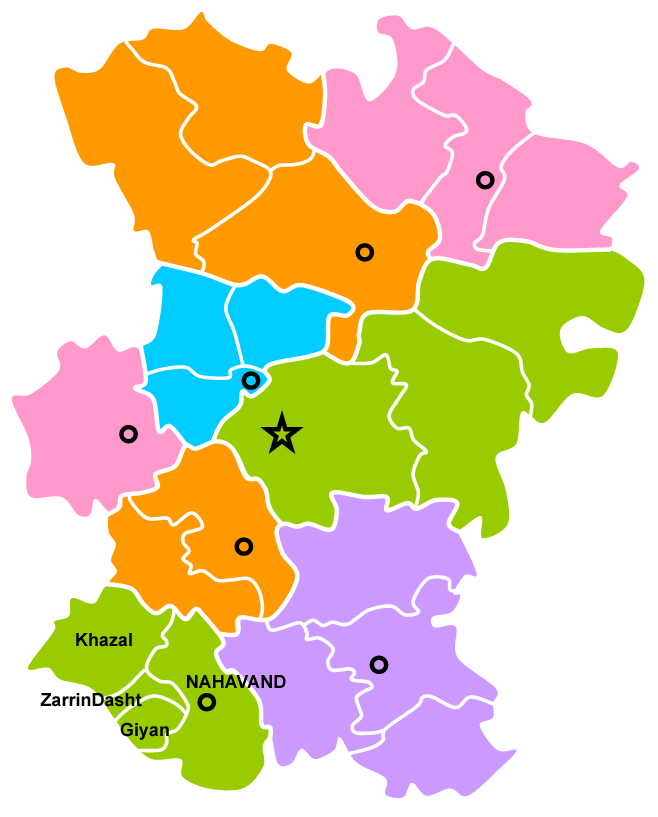 Nahavand sharestan Hamedan province, Administrative map